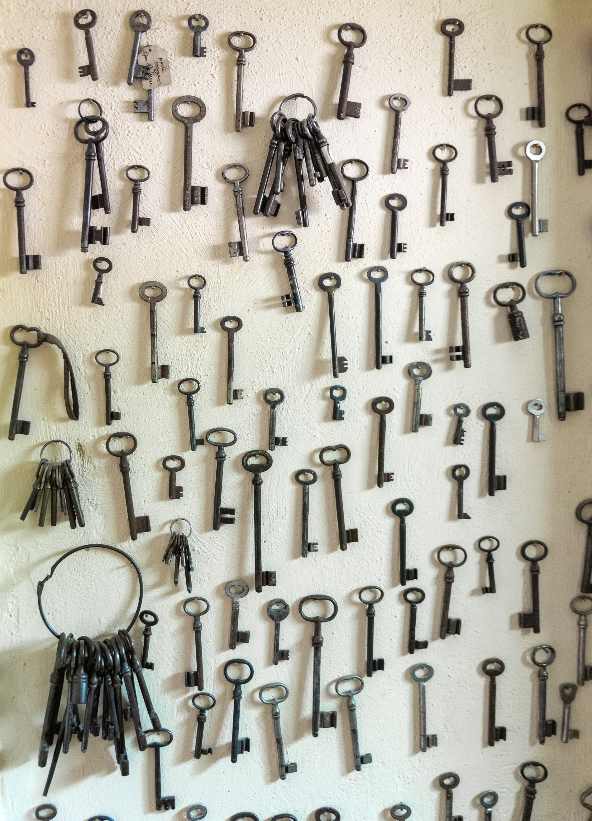 Collection of keys